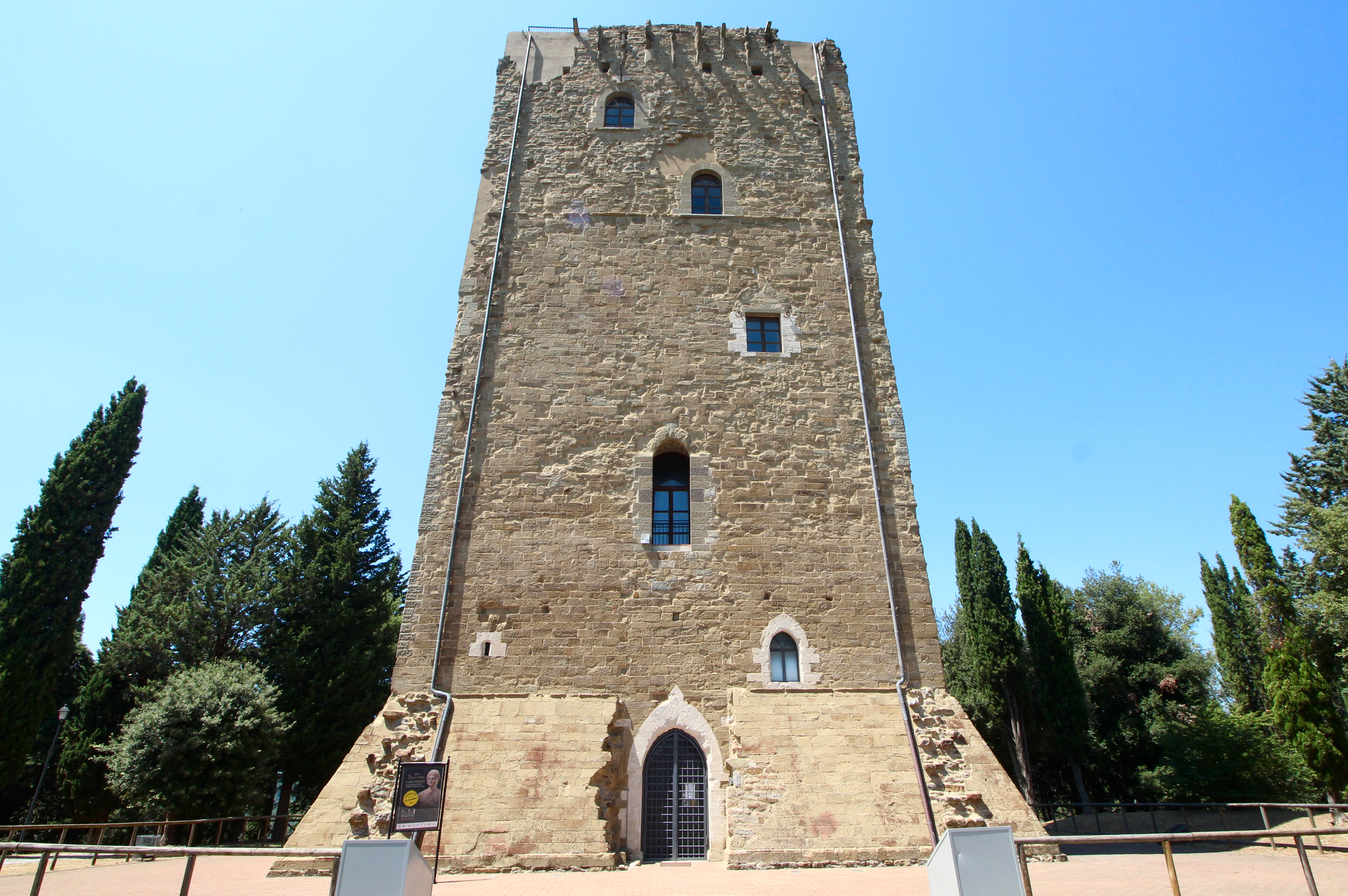 devensive Tower Torre dei Lambardi, Magione, Province of Perugia, Umbria, Italy